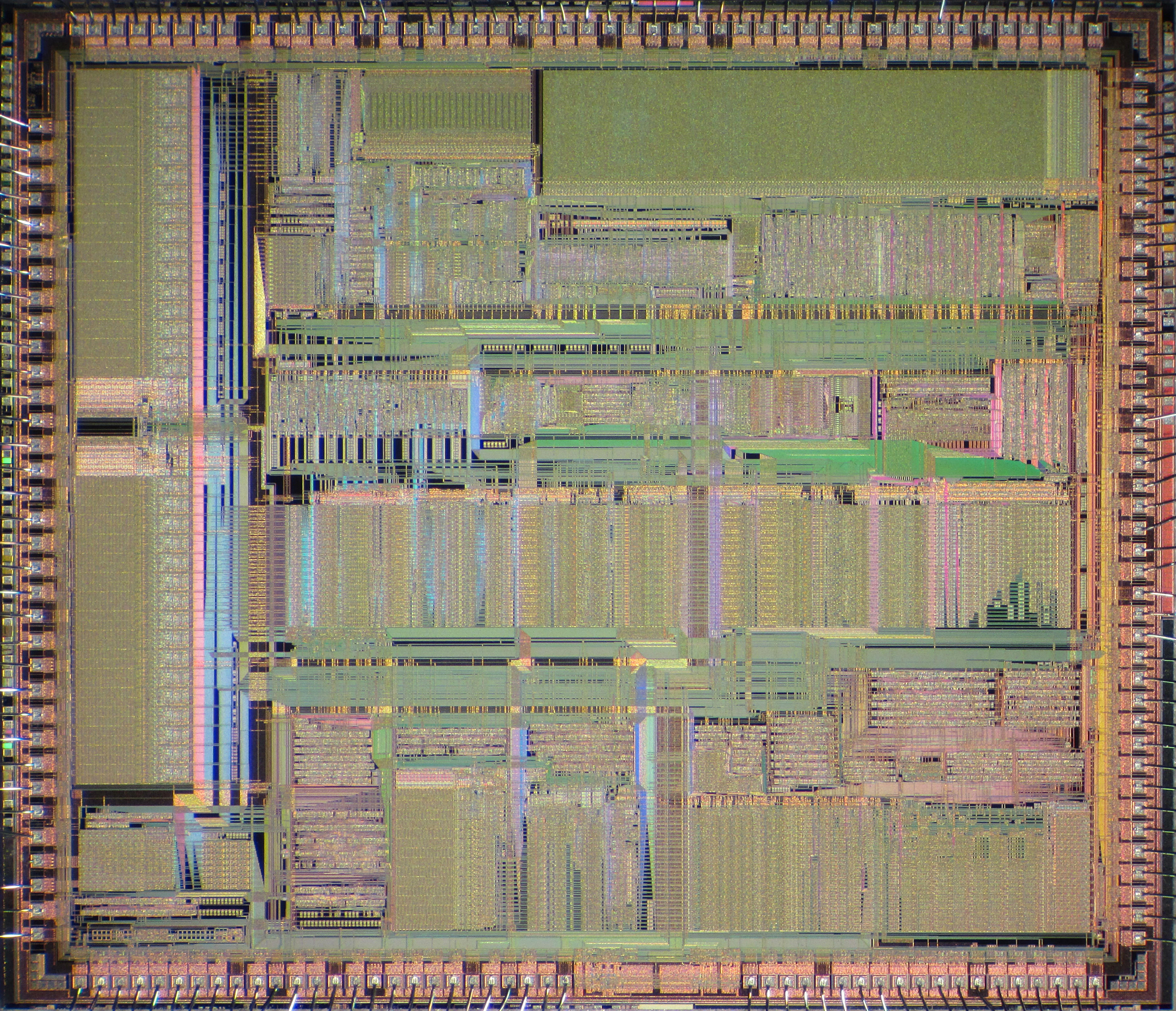 Die shot of Cyrix FasCache Cx486S-33GP microprocessor.